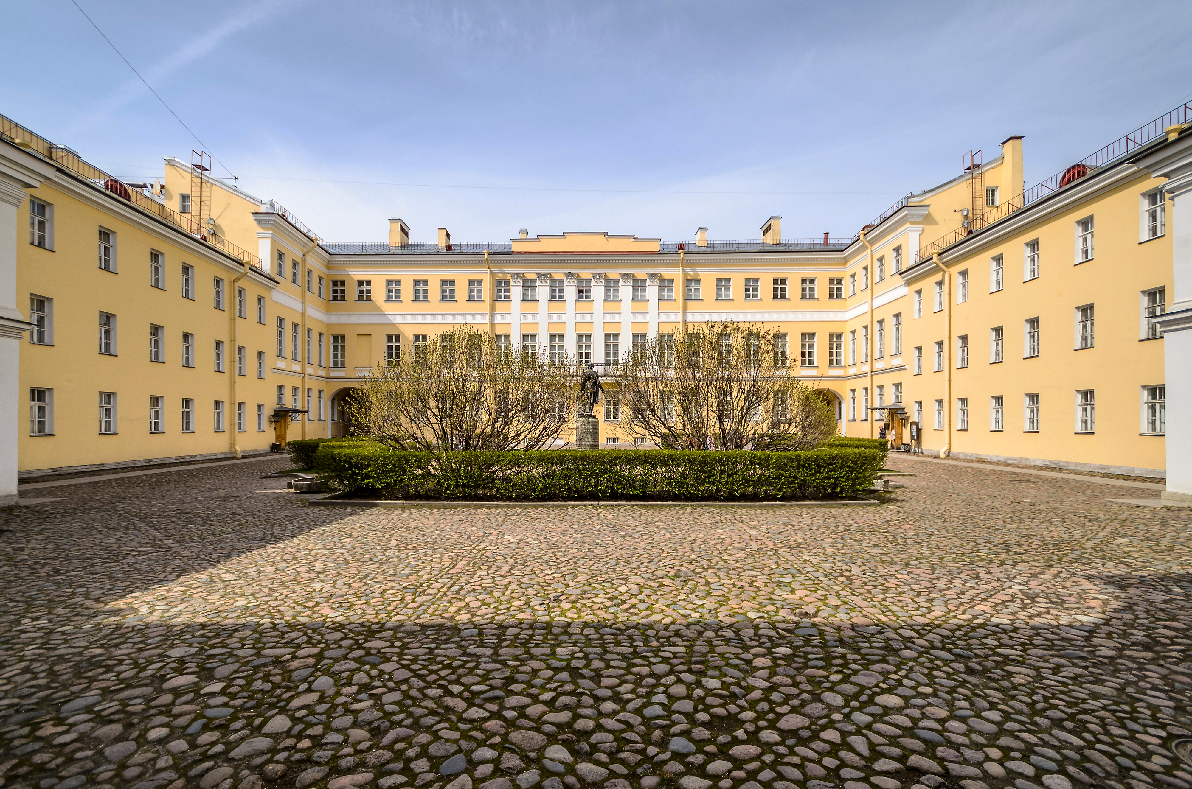 Сourtyard of the Memorial Pushkin Apartment Museum in Saint Petersburg